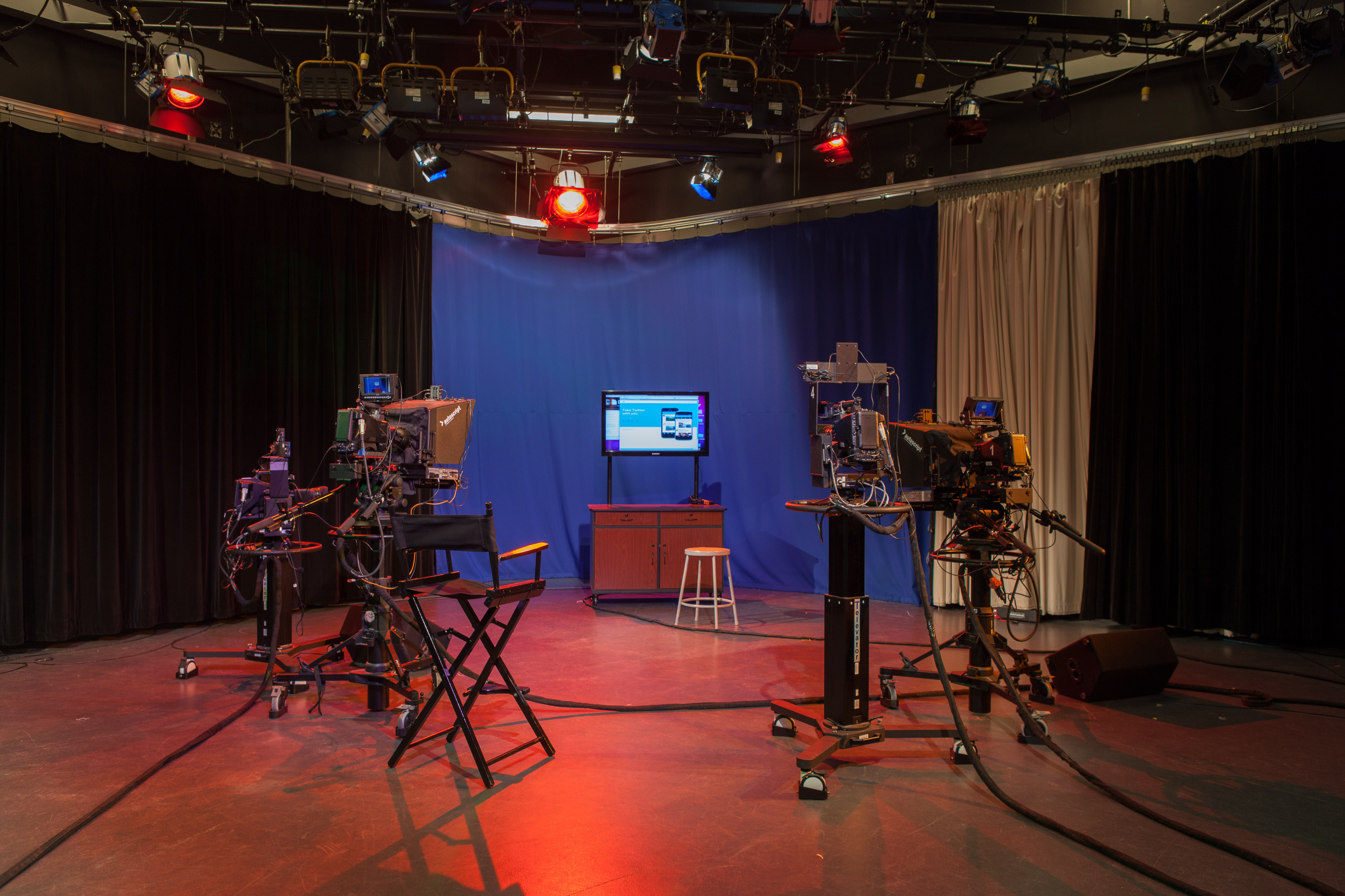 MNN's 59th St. Studios include a 4-camera open studio, a 3-camera closed studio, and two all-in-one studios. They join the 3 studios at the MNN El Barrio Firehouse Community Member in East Harlem.